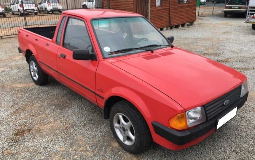 A Ford Escort Mk.III-derived Ford Bantam, pre-facelift.